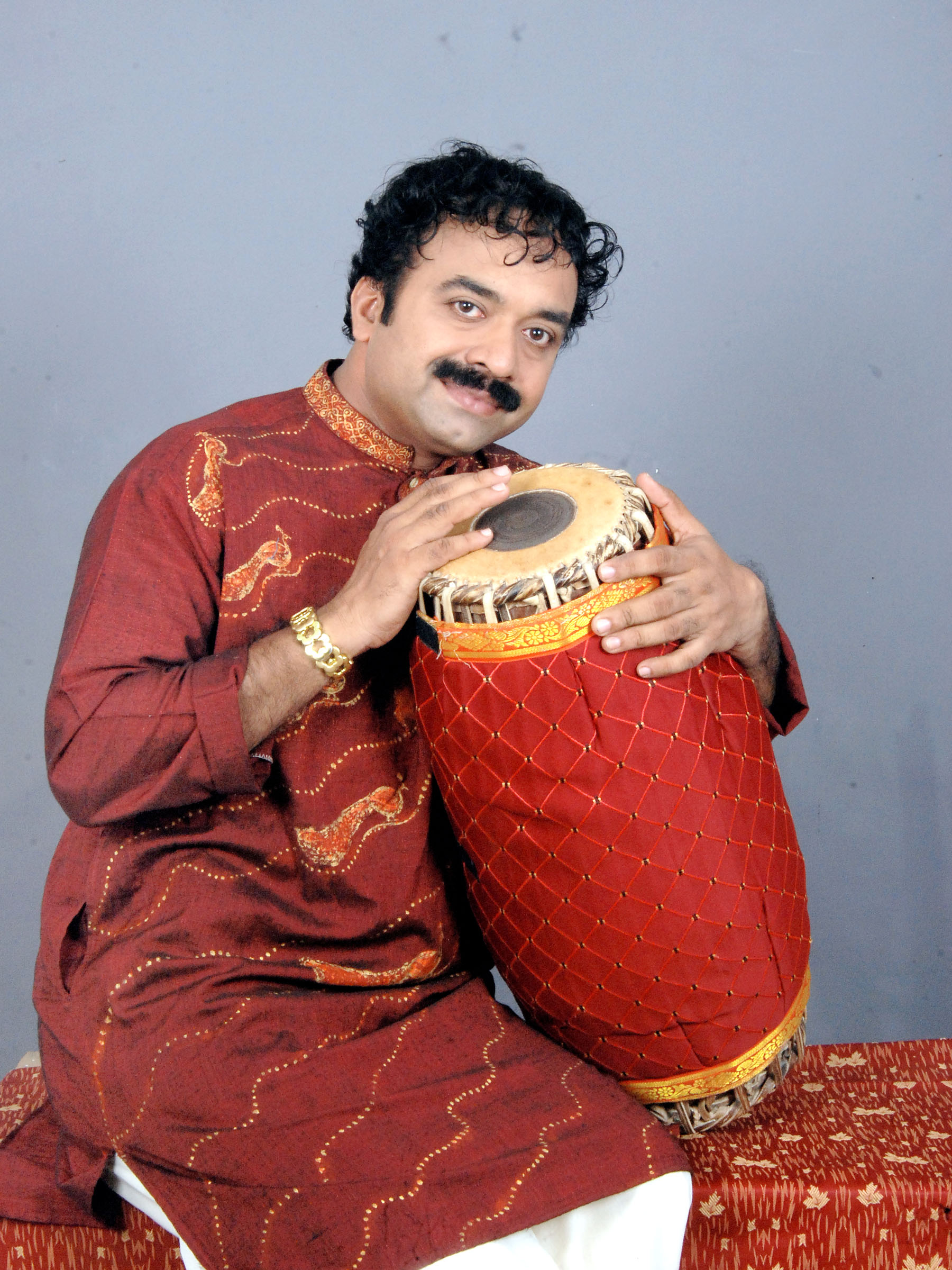 MALAYALAM